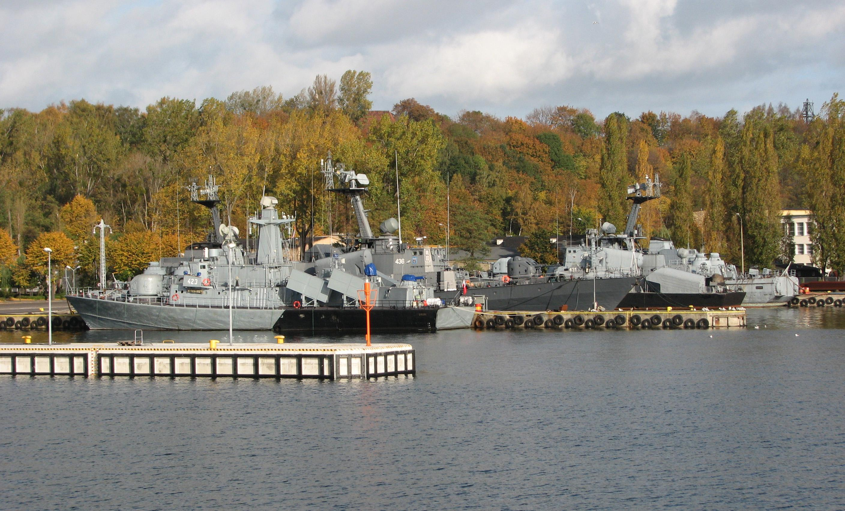 Polish missile boats in Gdynia: ORP Grom Project 660 class (completed with RBS-15 missiles), ORP Metalowiec Project 1241RE (Tarantul-I) class, ORP Świnoujście (431) Project 205 (Osa-I) class and the second Project 1241RE one.